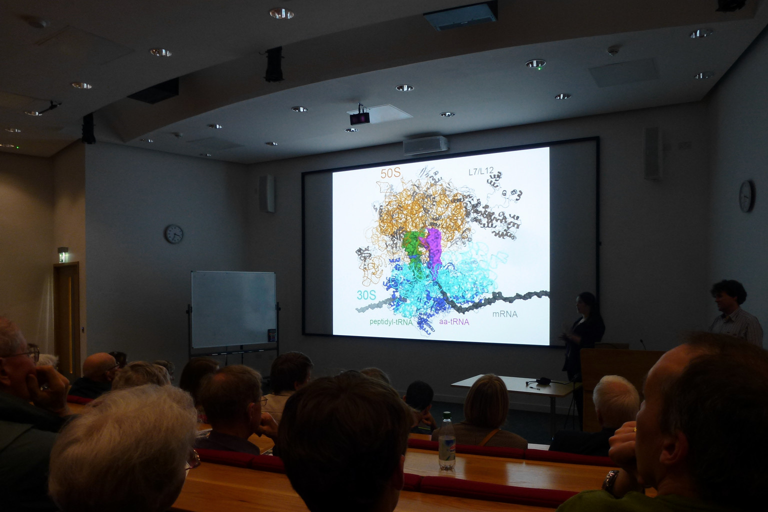 A public lecture at the new building of the Laboratory of Molecular Biology in the Cambridge Biomedical Campus on 22 June 2013.